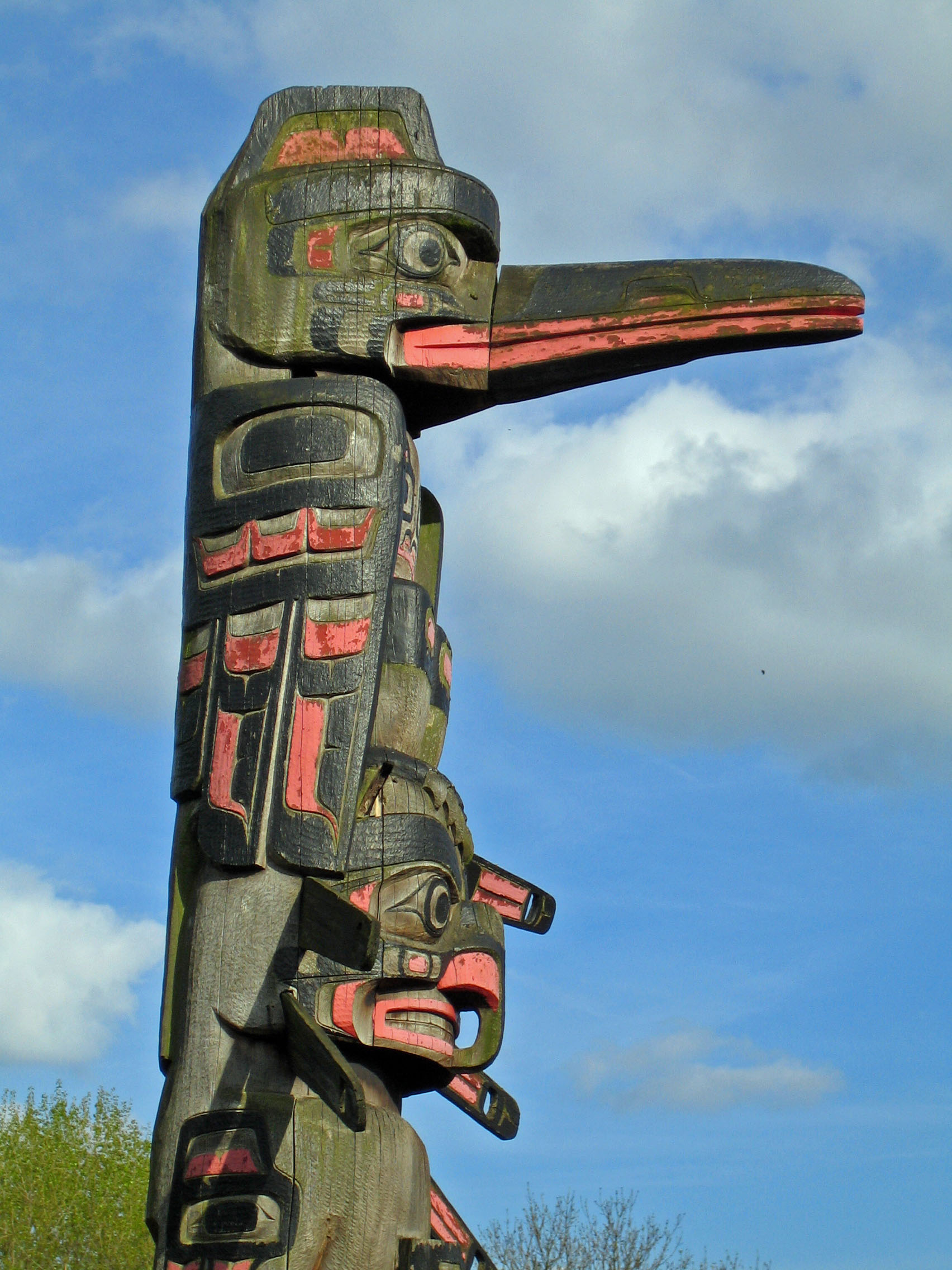 Totem pole in Berkhamsted.